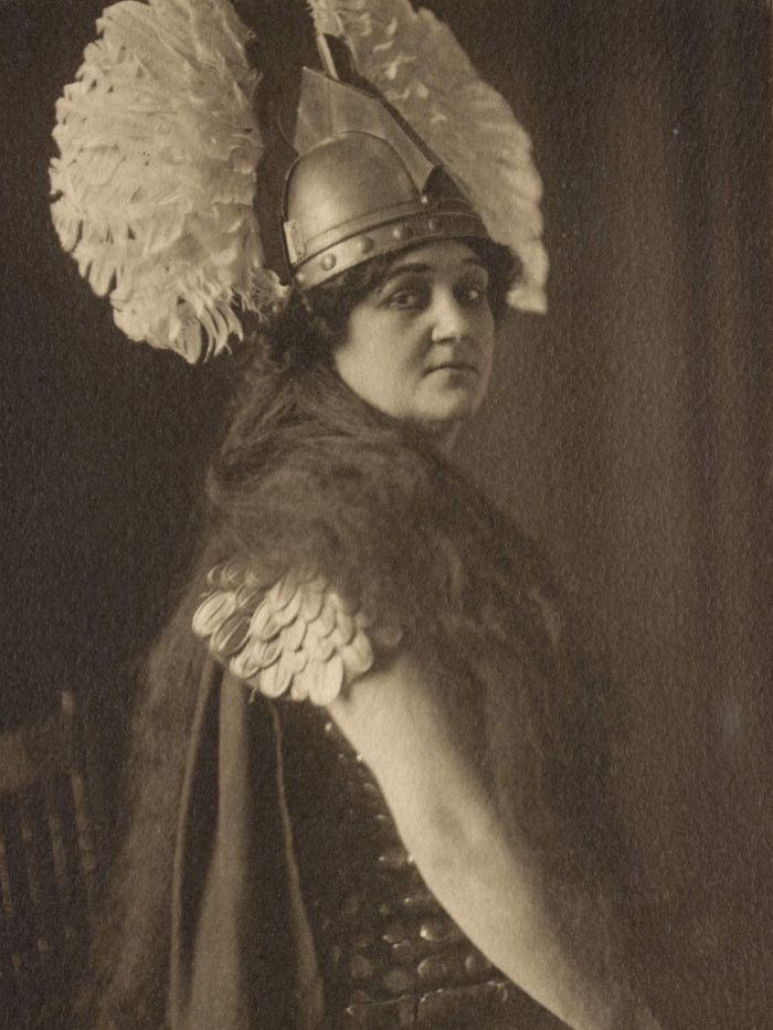 Portrait photograph of Perceval Allen in 'Brunnhilde' costume, by May and Mina Moore. State Library of Victoria.